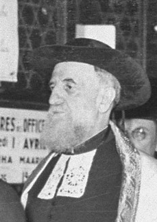 Rabbi Isaie Schwartz is escorted by leaders of the Jewish community to the synagogue where he will be installed as the new Chief Rabbi of France